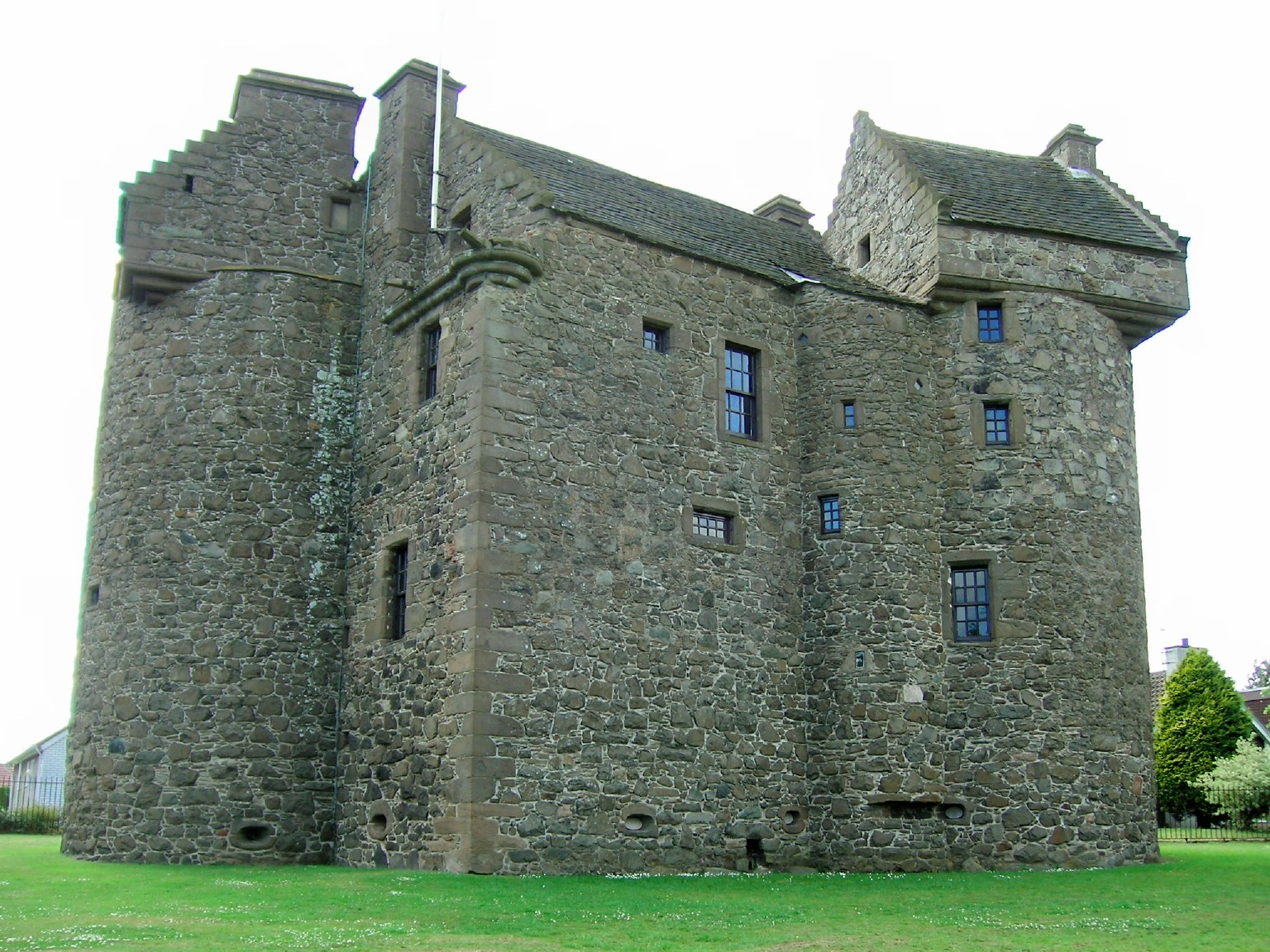 Claypotts Castle, Dundee, UK